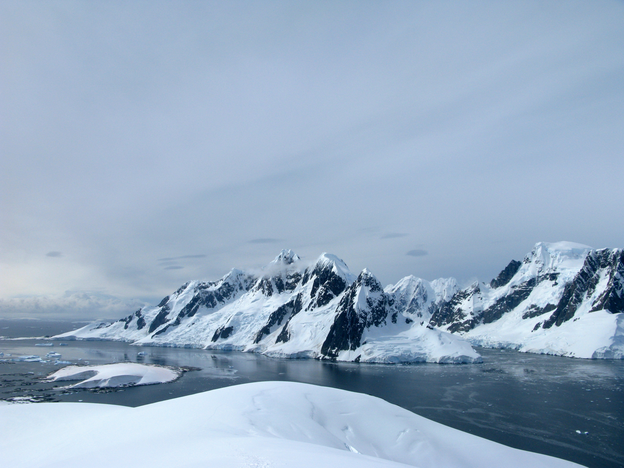 Booth Island, Antarctica